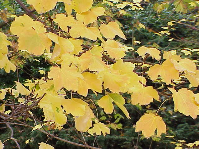 Species: Acer opalus Family: Aceraceae Image No. 1